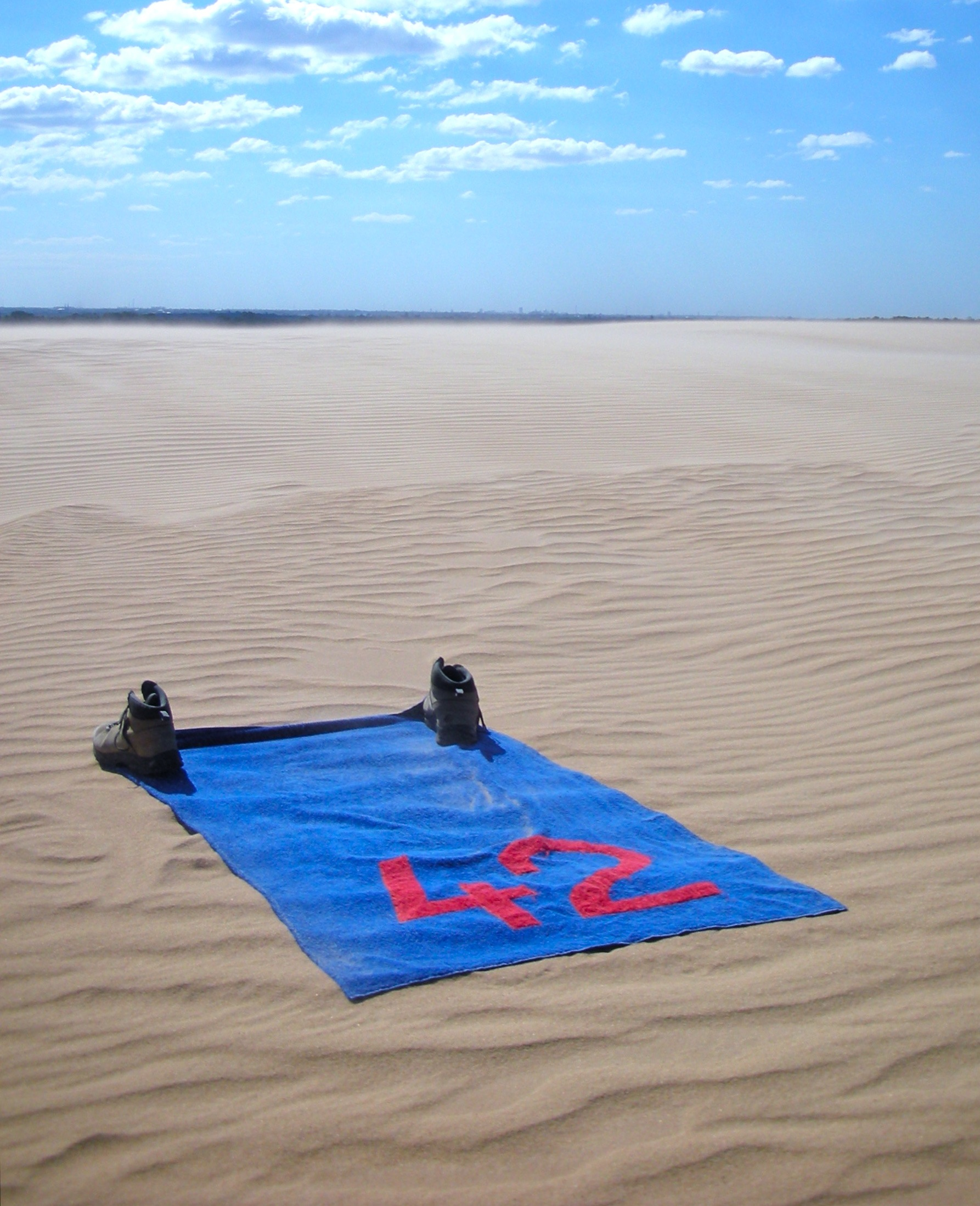 A blue towel featuring a large red 42 (the answer to life, universe and everything) lying on a dune with hiking boots. The photo was created as a homage to Douglas Adams' Hitchhiker's Guide to the Galaxy.